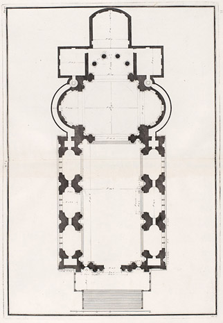 Chiesa del Redentore in Venice by Andrea Palladio. Drawing by Ottavio Bertotti Scamozzi, 1783.